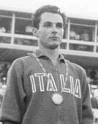 Abdoulaye Seye, Livio Berruti and Lester Carney at the Rome Olympics